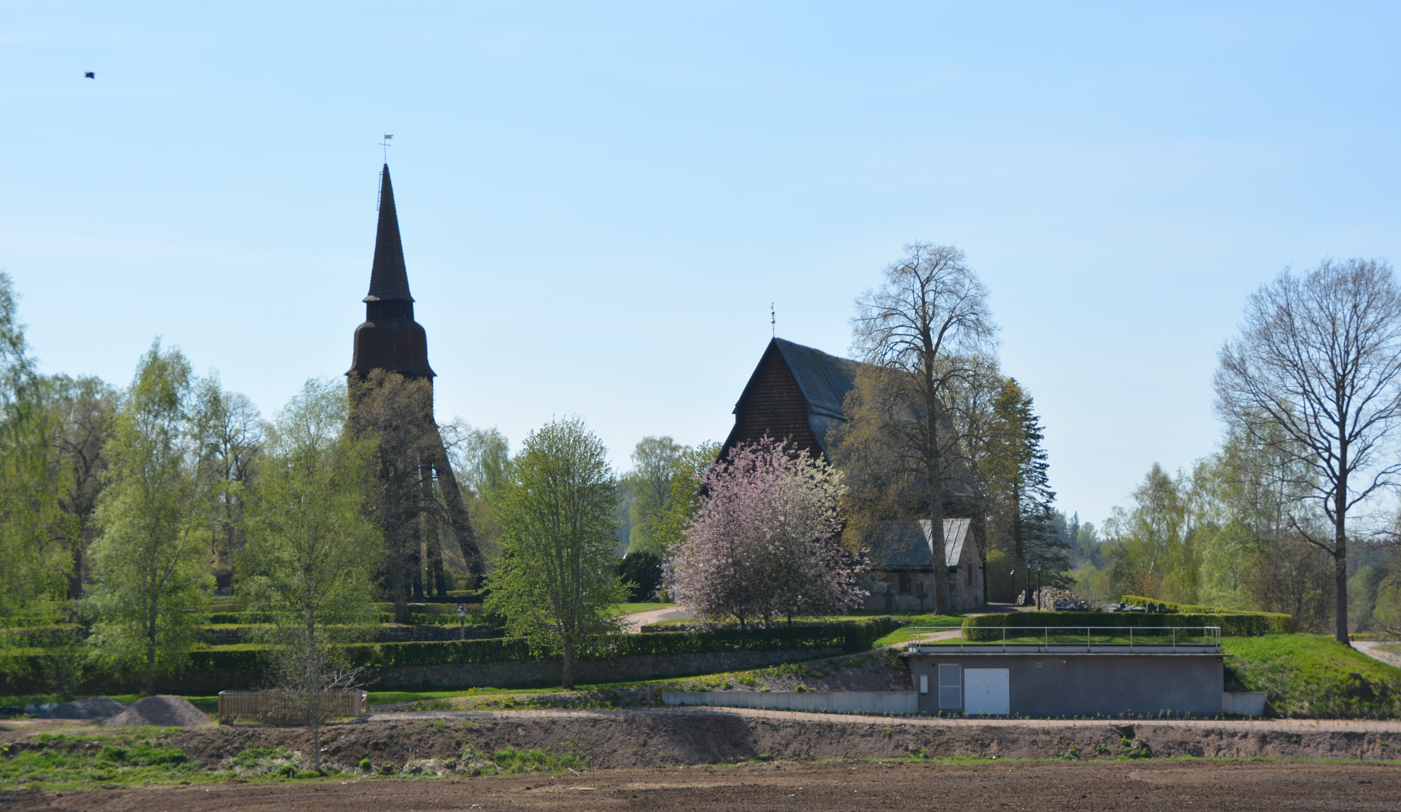 Frödinge kyrka, maj 2017